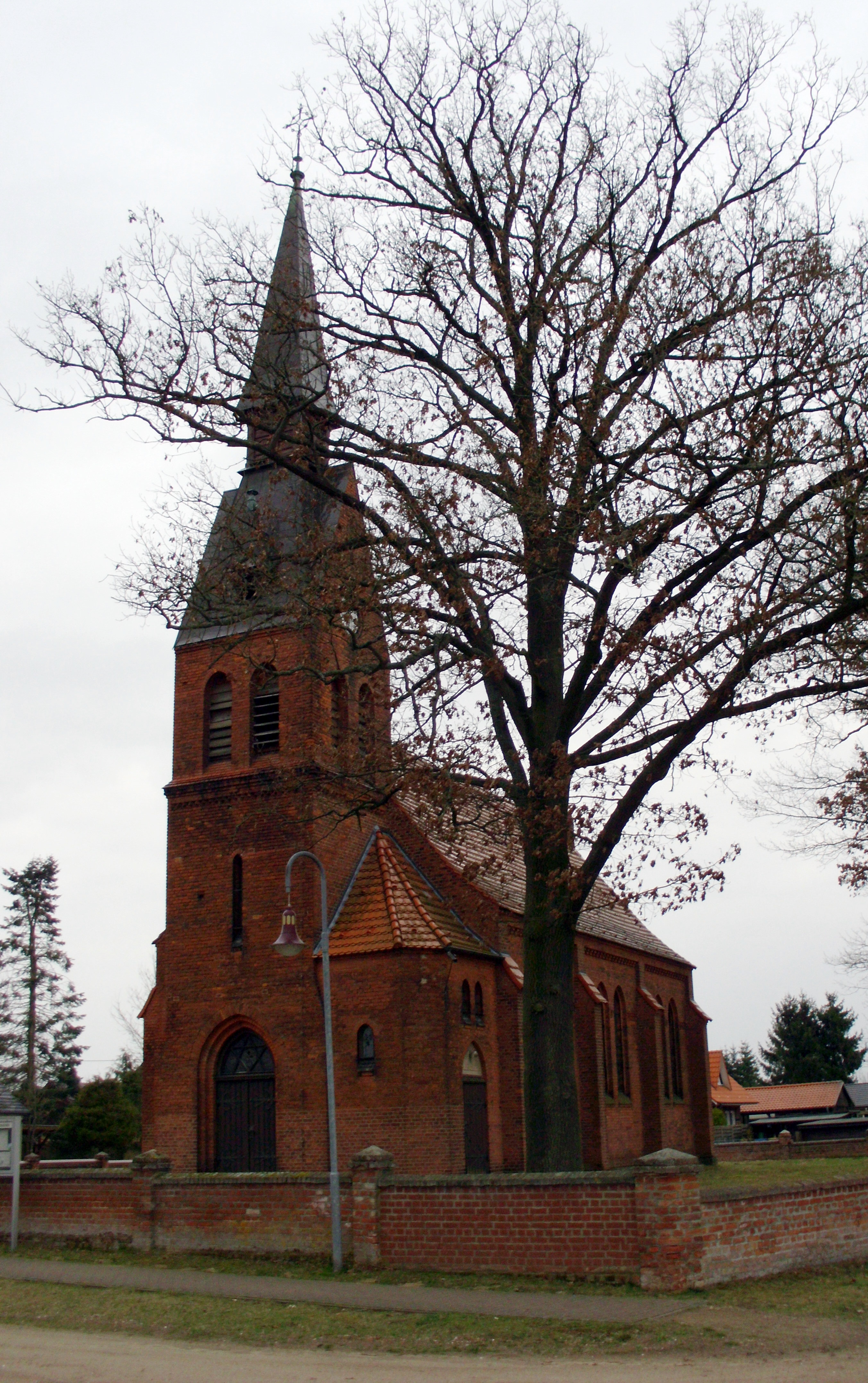 Frankendorf church, Storbeck-Frankendorf municipality, Ostprignitz-Ruppin district, Brandenburg state, Germany